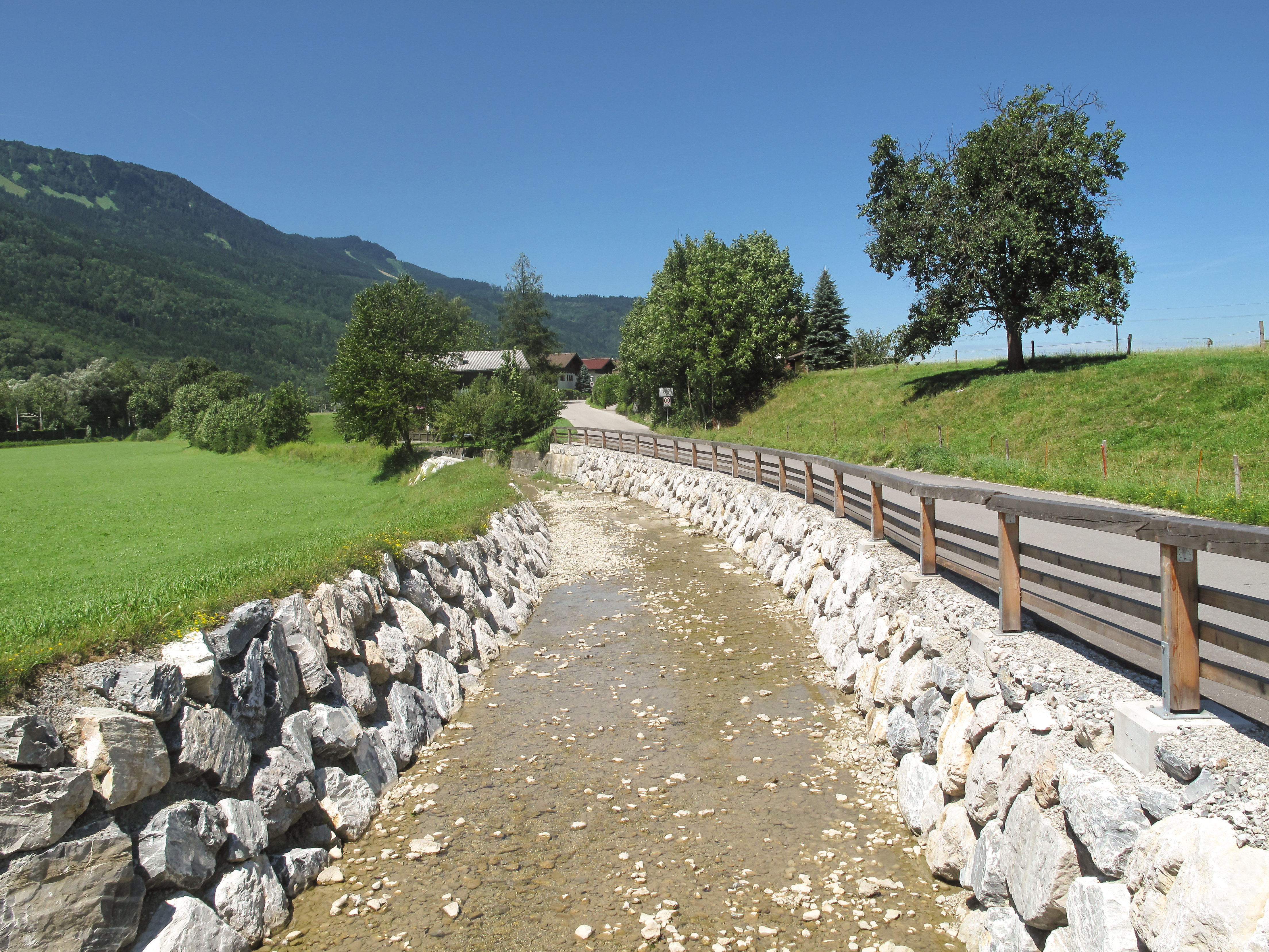 Kertererbach between Kuchl and Kellau, riverbed